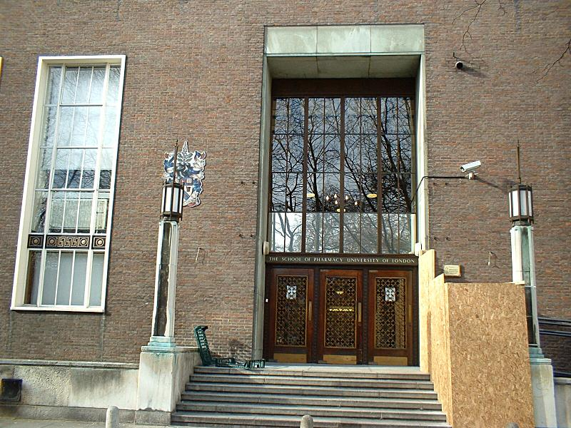 School of Pharmacy, University of London taken by C Ford, March 04.